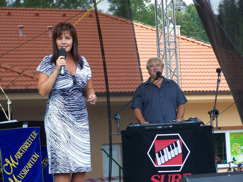 Czech popular duo singers Eva & Vašek during concert in town of Aš, Bohemia, 2013-08-17. Česky: Duo Eva a Vašek během koncertu v Aši, 17. 8. 2013.